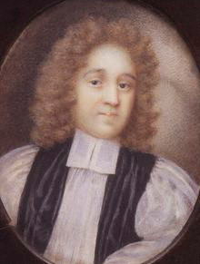 John Hough (1651-1743)